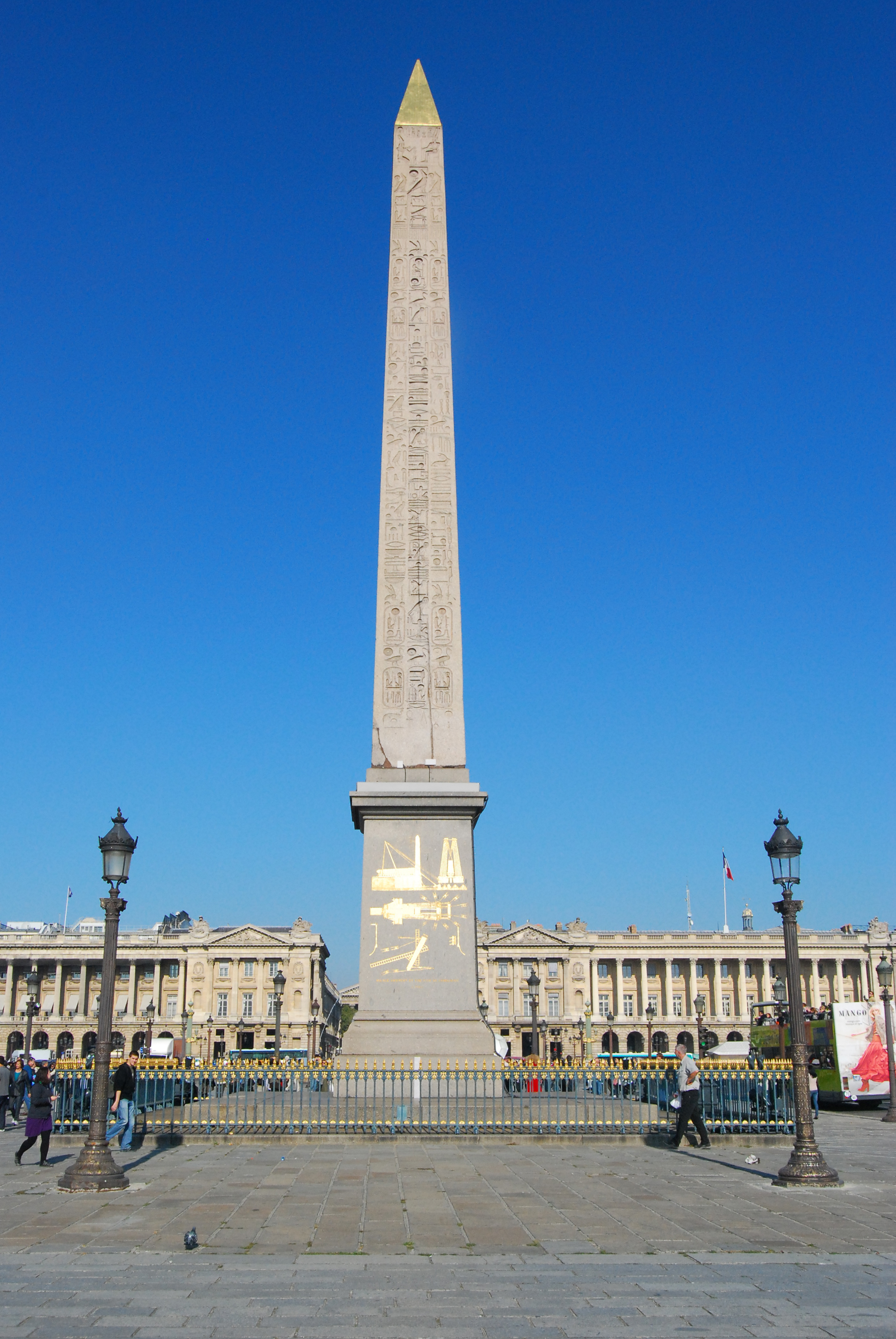 Obelisk in Place de la Concorde, Paris